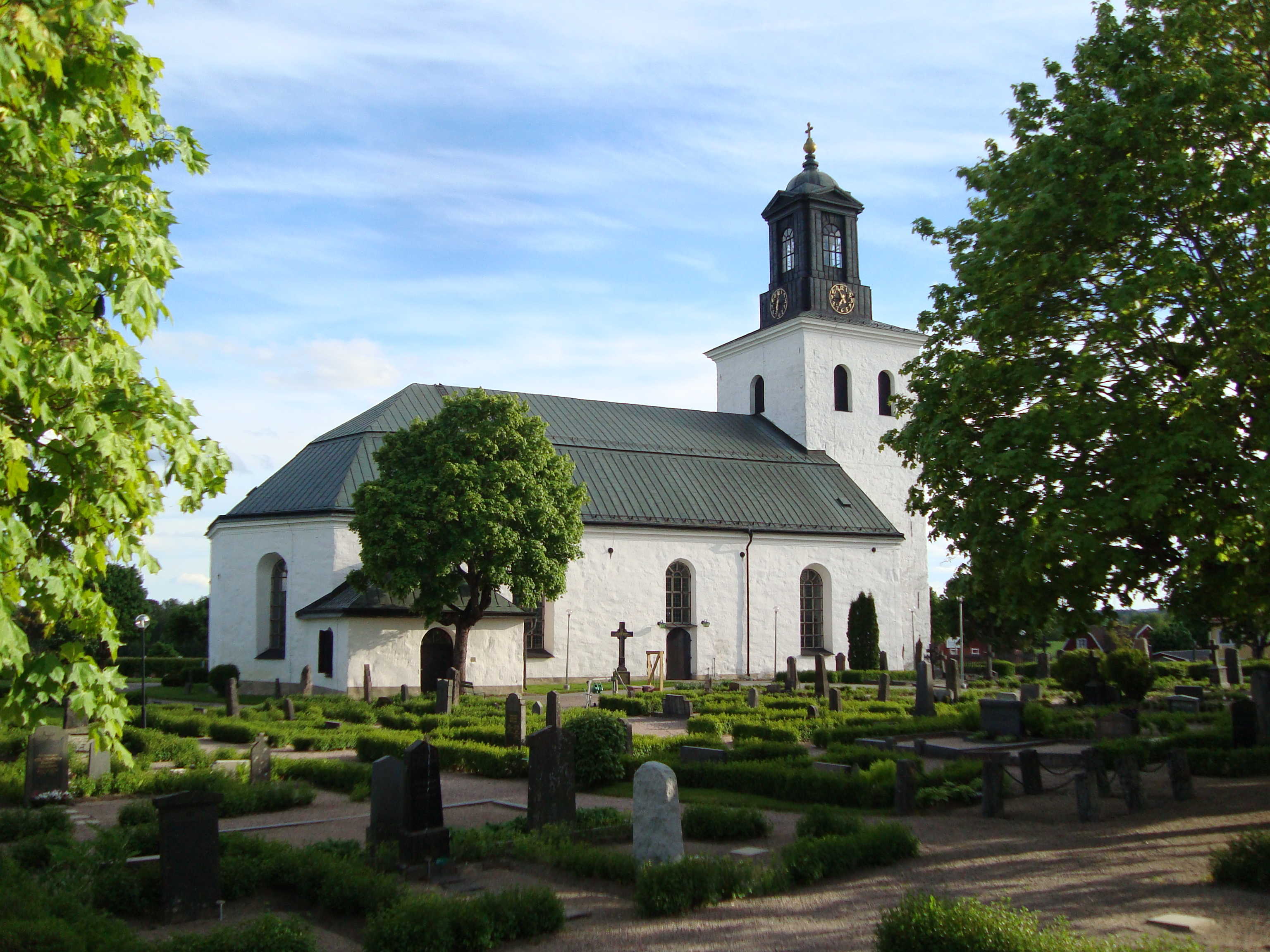 Torsåker's church, Hofors Municipality, Sweden